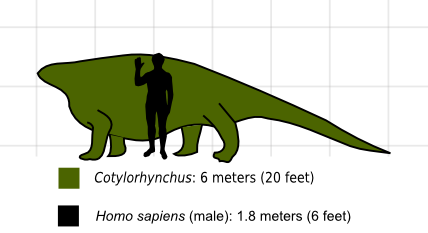 Cotylorhynchus scale